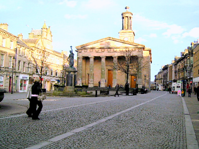 Saint Giles Kirk, Elgin